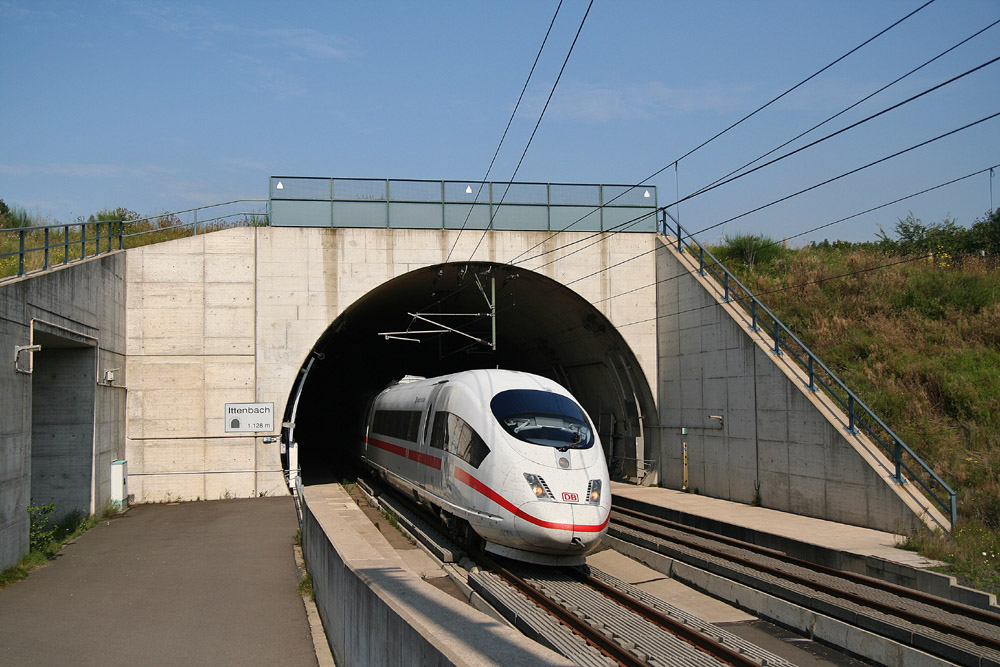 South portal of the Ittenbach Tunnel